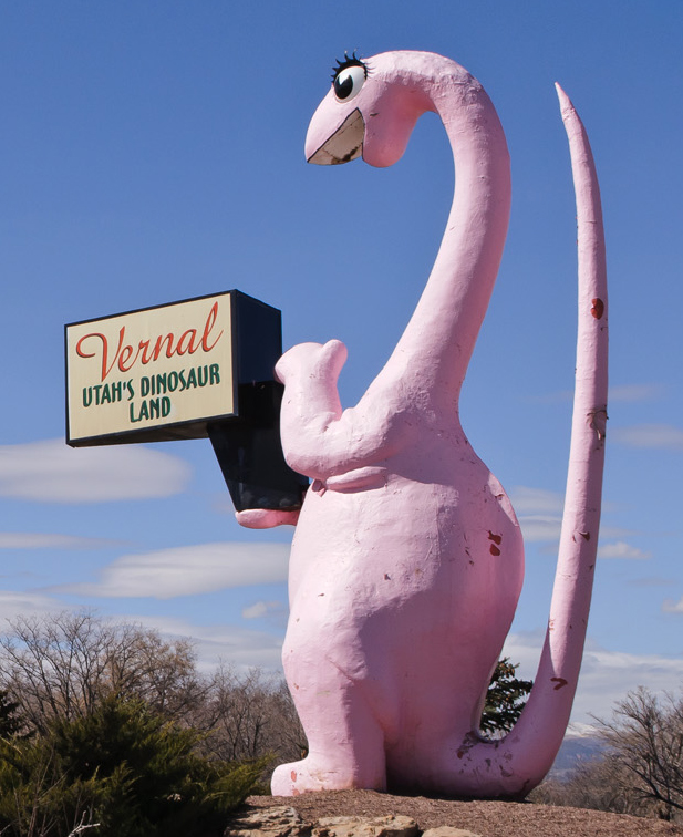 (Cropped from the original image by Dennis Brown) The pink sauropod greets visitors to Vernal, the main population center in northeastern Utah. This artwork was created in 1958. This is indeed Utah's dinosaur country, because Dinosaur National Monument is only ten miles or so to the east, just north of the town of Jensen. It is also the only reason I decided to drive all the way out here. US-40 was the main east-west highway, also known as the Lincoln Highway, that stretched all the way from San Francisco to Atlantic City. Today, the sections west of Park City have been switched to I-80, but in this area, US-40 still plays an important role as it is still the only direct connection between Salt Lake City and Denver. (I-70 had been intended to supersede US-40 through Utah and Colorado, but I-70 ended up being re-oriented southwest to point toward Las Vegas and Los Angeles instead.)